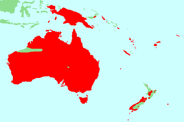 Distribution of Australasian robins, family Petroicidae. Created DEMIS World Map Server using and PD source maps. Based on Handbook of the Birds of the World